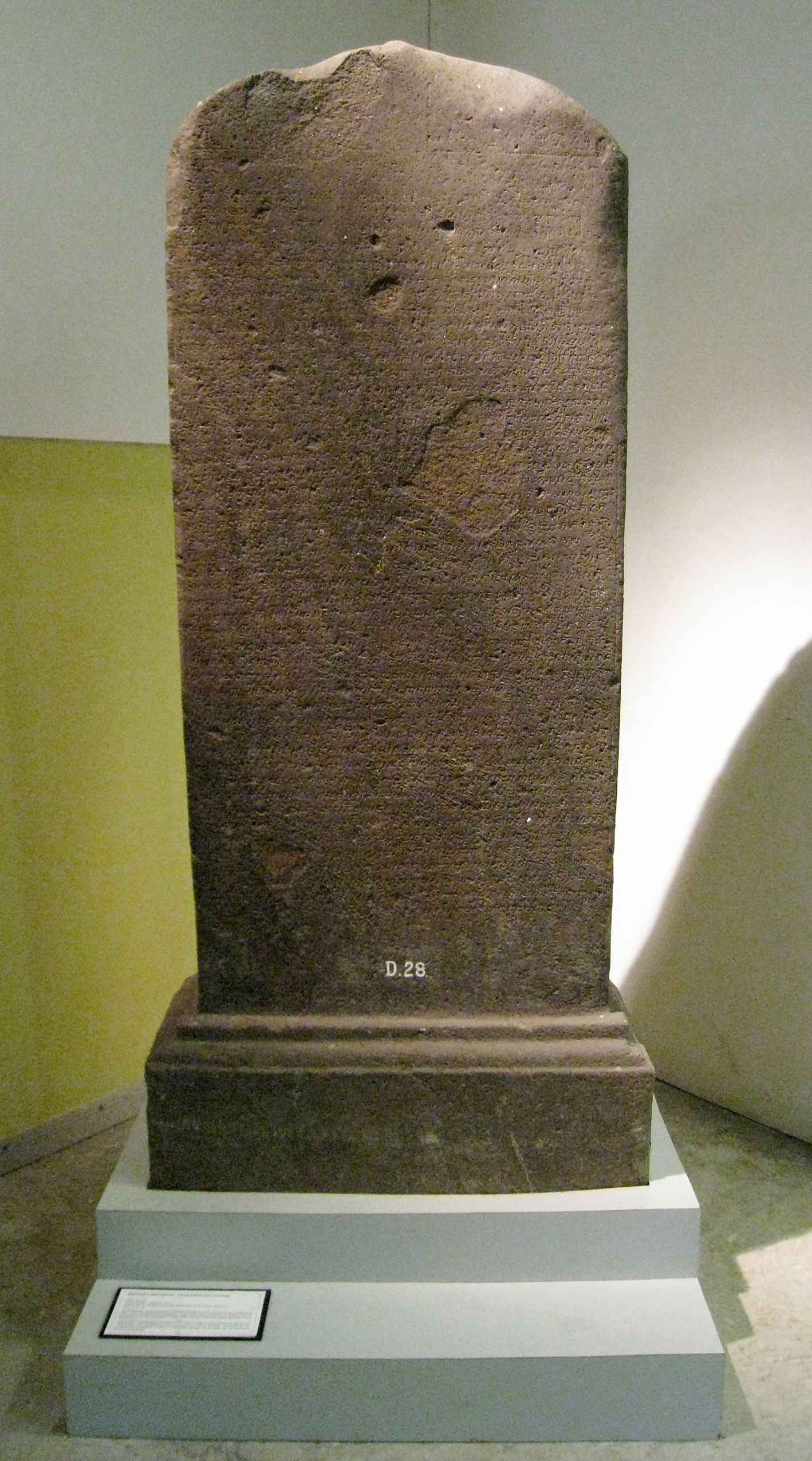 Shivagrha inscription is an inscription originated from Medang Kingdom, Central Java, dated in chandrasengkala (chronogram) ”Wwalung gunung sang wiku” corresponds to 778 Saka (856 CE). The inscription was edicted by Dyah Lokapala (Rakai Kayuwangi) right after the end of Rakai Pikatan reign, and mentioned some detail description of a grand temple compound dedicated to Shiva called Shivagrha (the house of Shiva) which match the Prambanan temple compound, Yogyakarta.